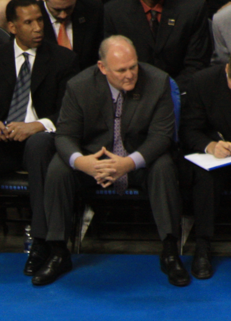 Denver Nuggets primary logo and the Nuggets bench, including head coach George Karl.